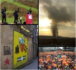 Collage of images about the Basque conflict. Pictures taken from Wikicommons. Not the final version.